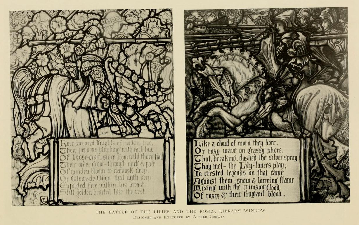 The Battle of the Lilies and the Roses (1910) by Alfred Godwin, Library windows, "Fairacres" (John W. Pepper residence), Jenkintown, Pennsylvania, Wilson Eyre, architect.